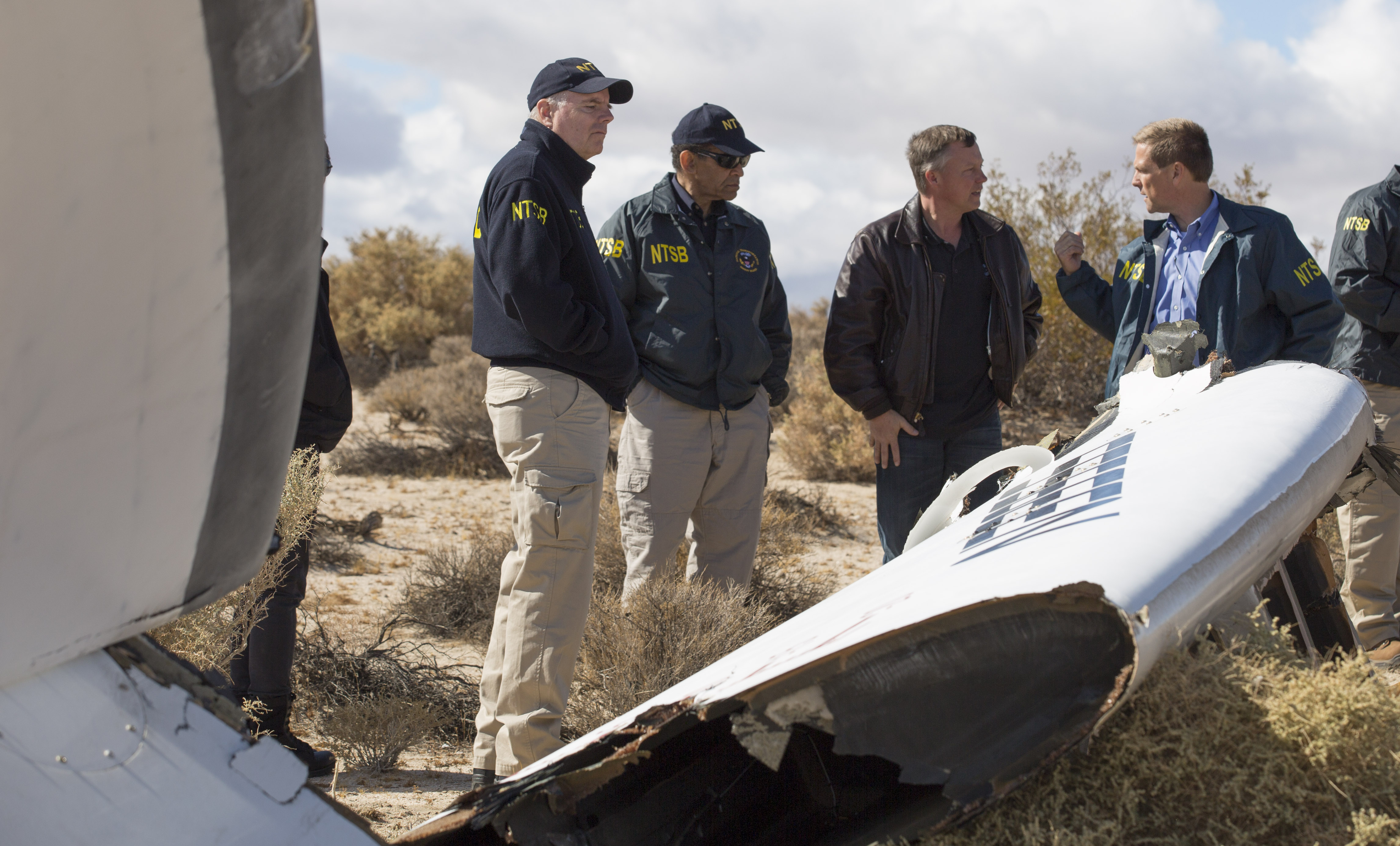 Acting Chairman Hart w/ Virgin Galactic pilot Todd Ericson & investigators at SpaceShipTwo accident site.